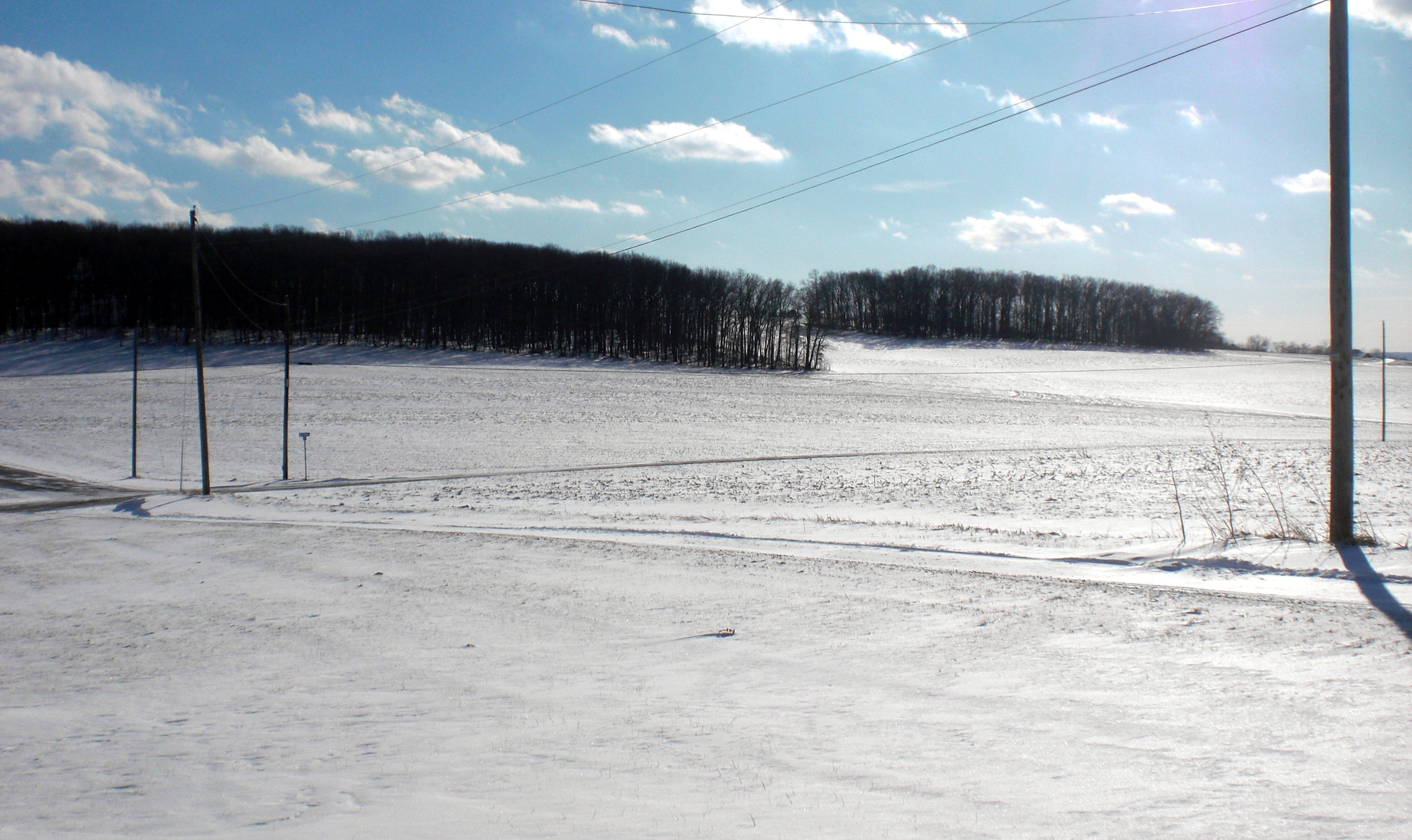 Winter scenery in Mayberry Township.